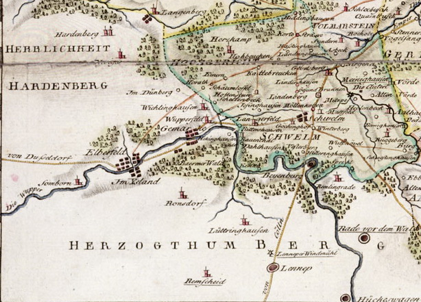 Map of Grafschaft Mark (County of Mark), Germany, 1791, by Friedrich Christoph Müller